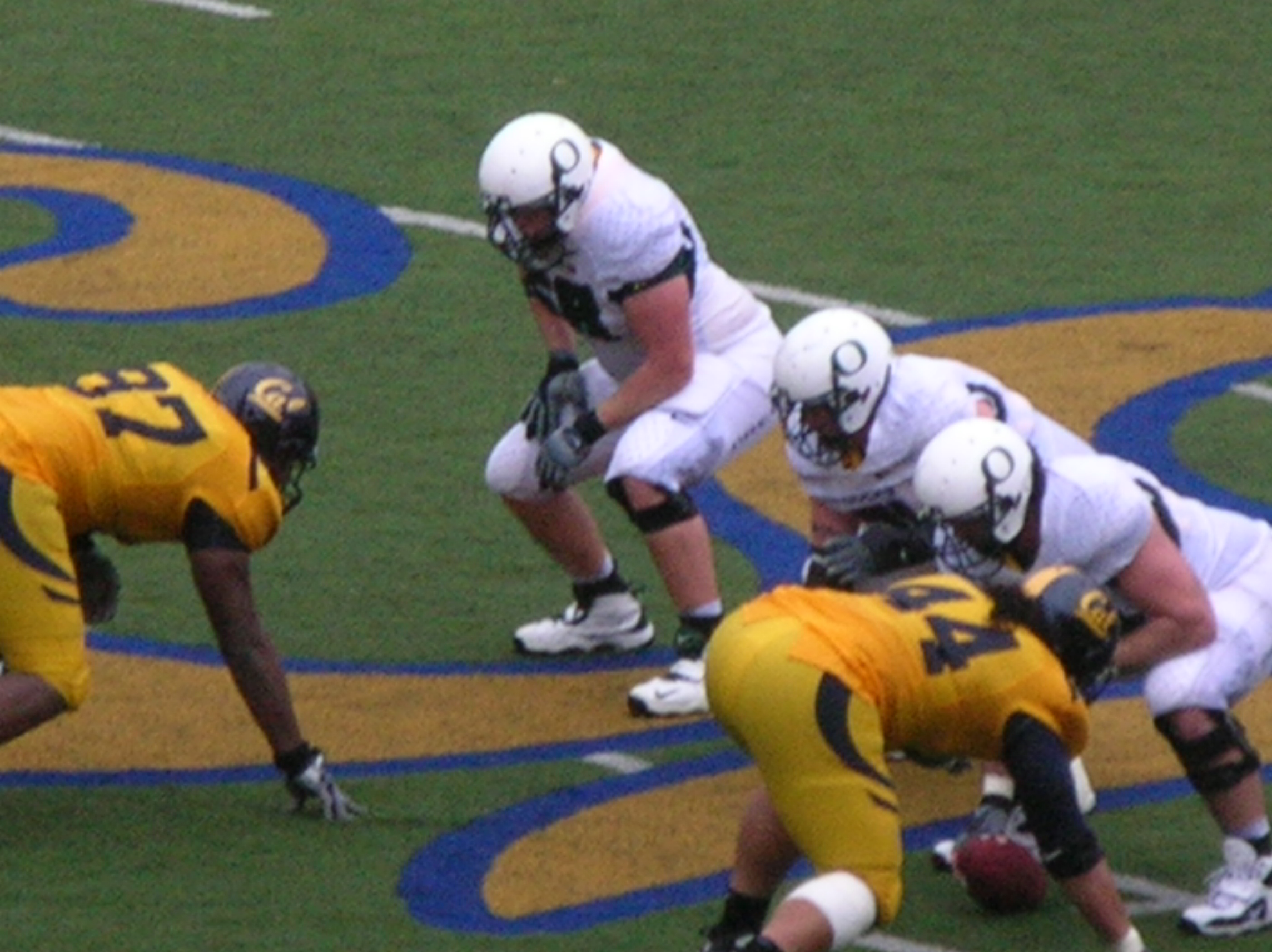 The Oregon Ducks on offense at a road game in the rain at Cal. The Golden Bears won 26-16.